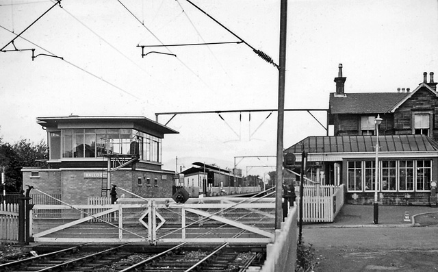 Balloch Central Station. View northward, towards Balloch Pier. Re-sited 24/4/88 to just behind photographer, the line to the Pier Station having been closed 29/9/86. Line was electrified in 1960.